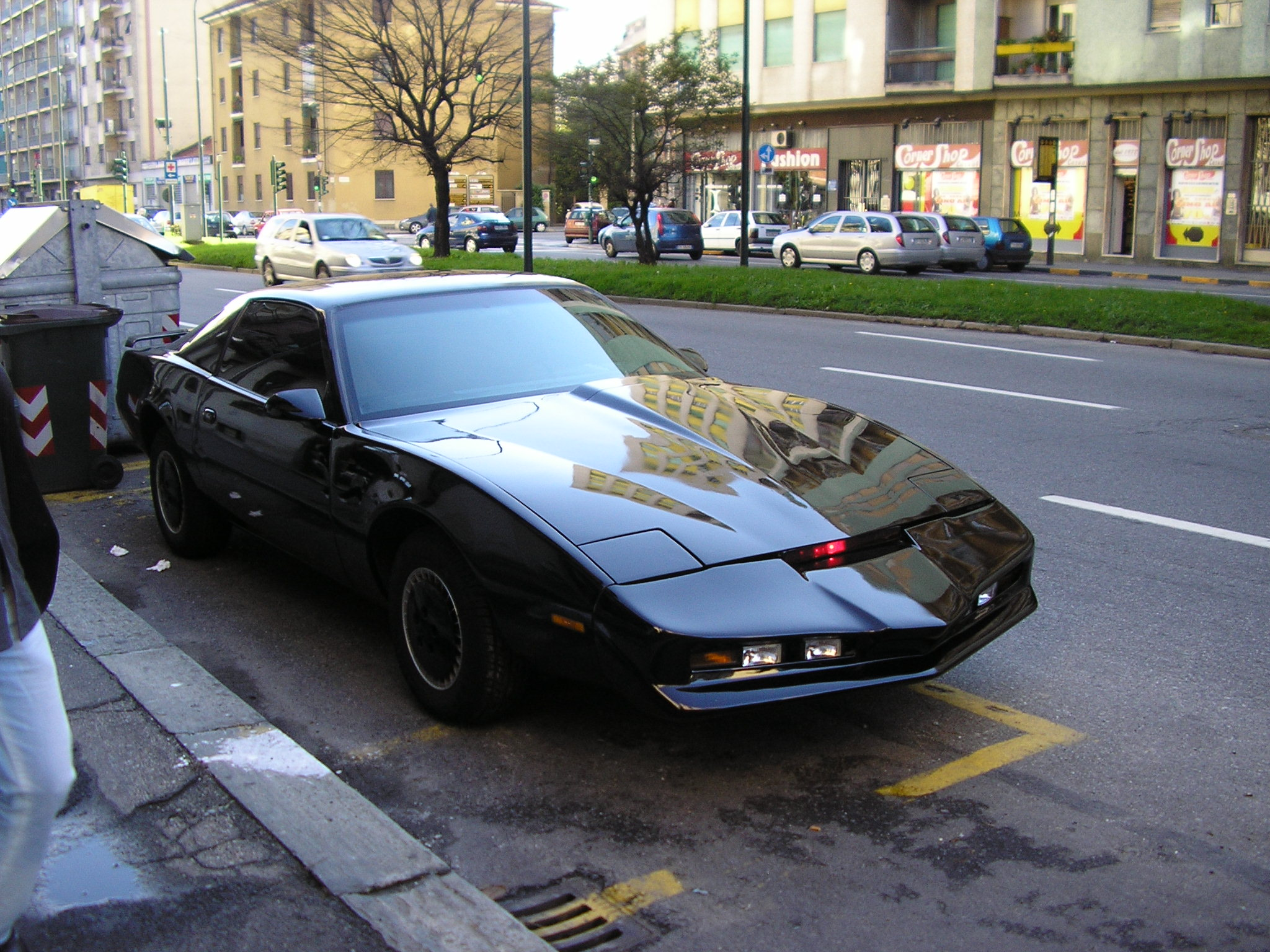 Photo of a my friend's replica taken by myself. It was taken in Turin, in Francesco De Sanctis street, on the corner of Chambery street.